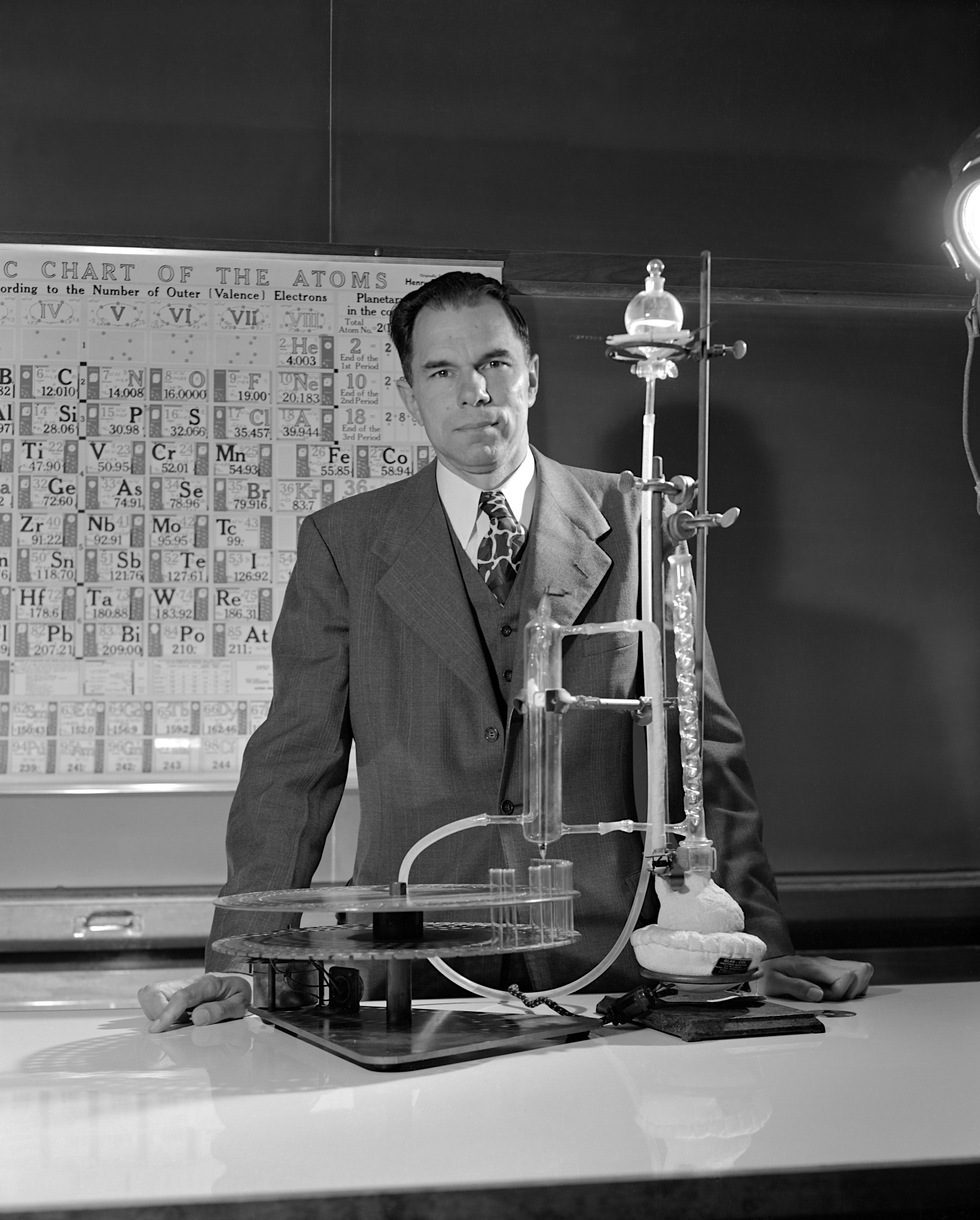 Glenn T. Seaborg standing in front of the periodic table with the ion exchanger illusion column of actinide elements.